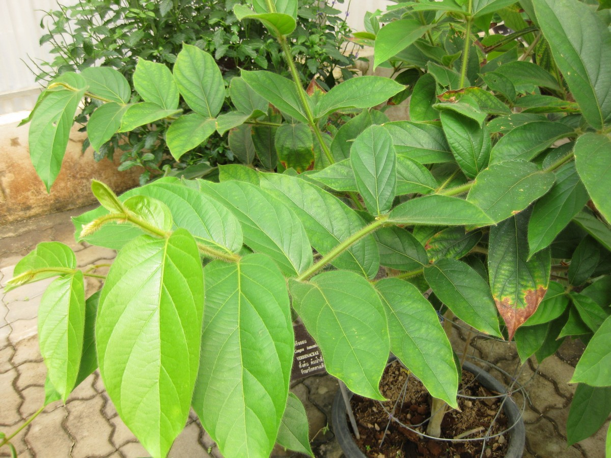 Photographed at the Queen Sirikit Botanic Garden (Chiang Mai Province, Thailand) in March